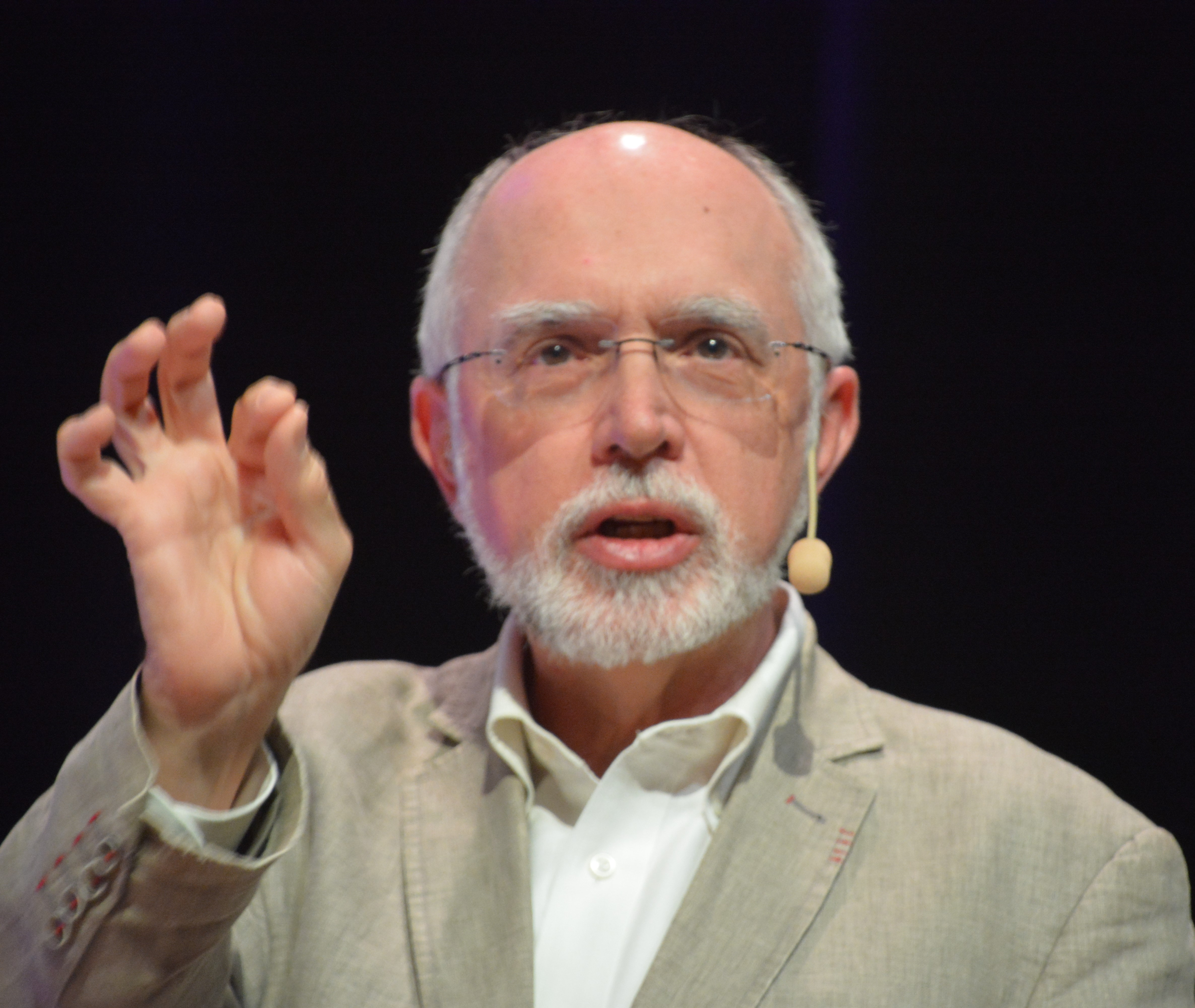 Robert Zatorre at the symposium Brain and Culture at Karolinska Institutet in Sweden, in October 2019